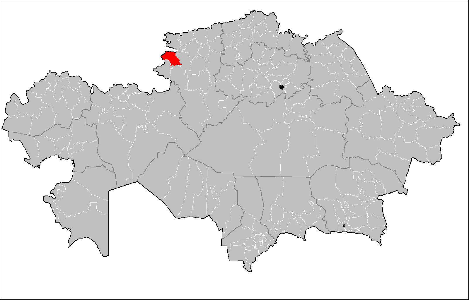 Map of the rayons of Kazakhstan. Created by Rarelibra 16:49, 3 August 2007 (UTC) for public domain use, using MapInfo Professional v8.5 and various mapping resources.